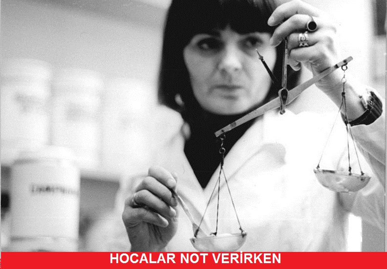 This photo was created to give an example to the Turkish internet phenomenon called "caps".